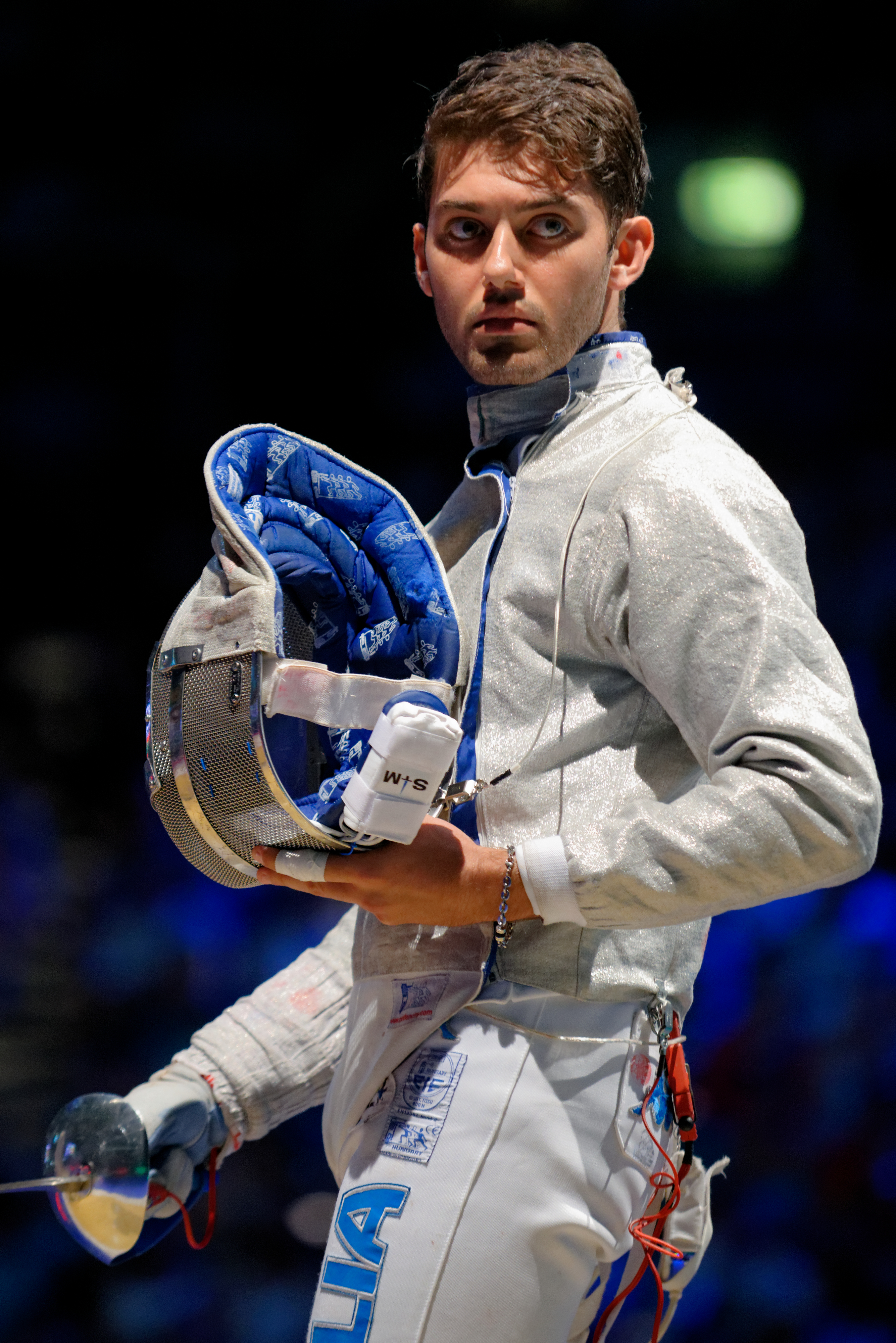 Italy's Enrico Berrè during his T16 bout against Gu Bon-gil of South Korea in the men's sabre event of the 2013 World Fencing Championships 2013 at Syma Hall in Budapest on 7 August 2013.